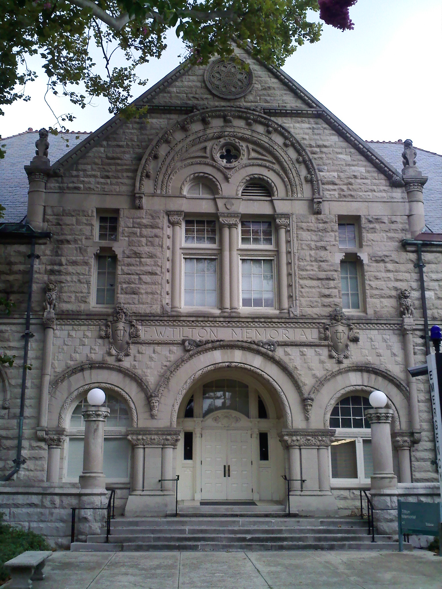 The front of Tilton Memorial Hall at Tulane University